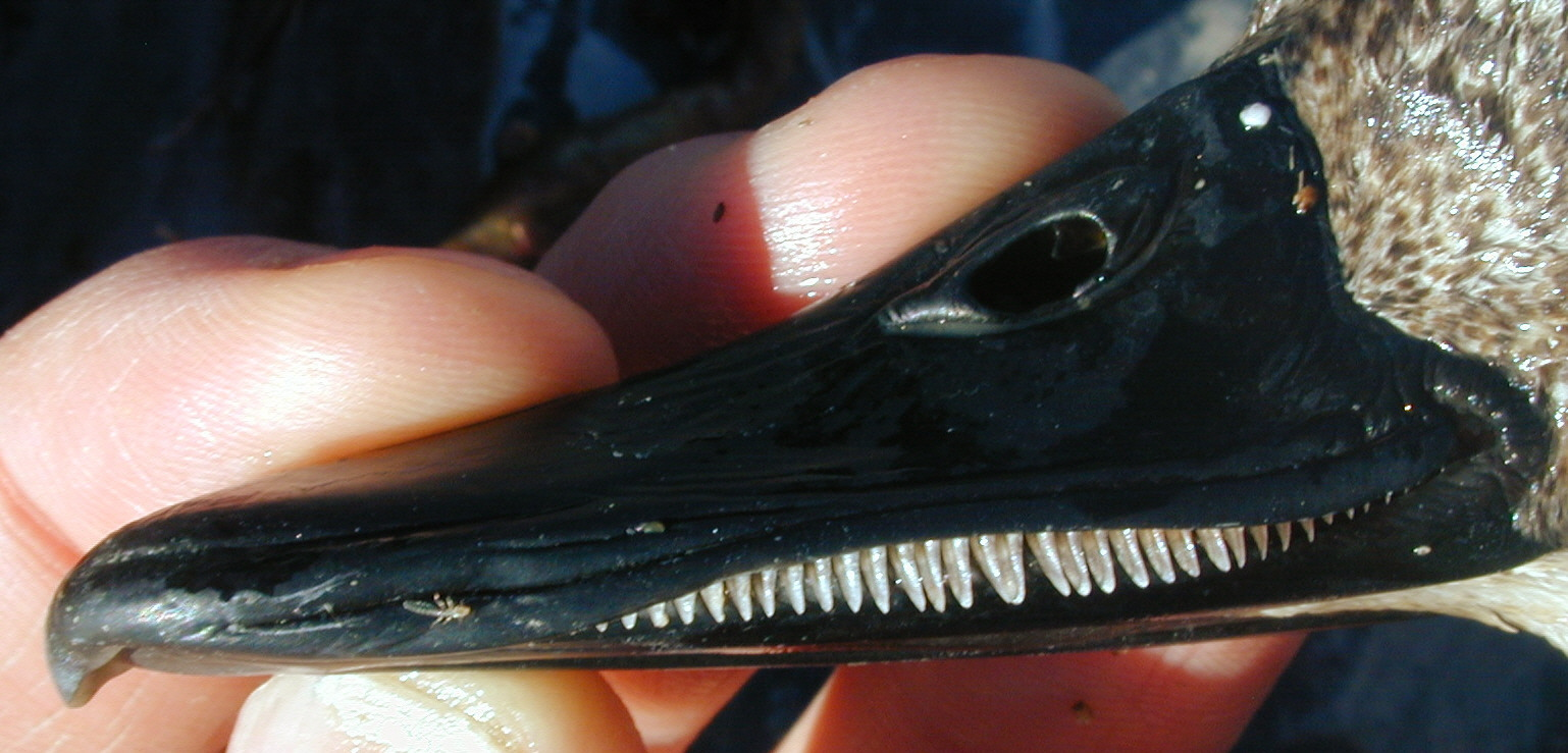 Pecten ('filter teeth') of a duck